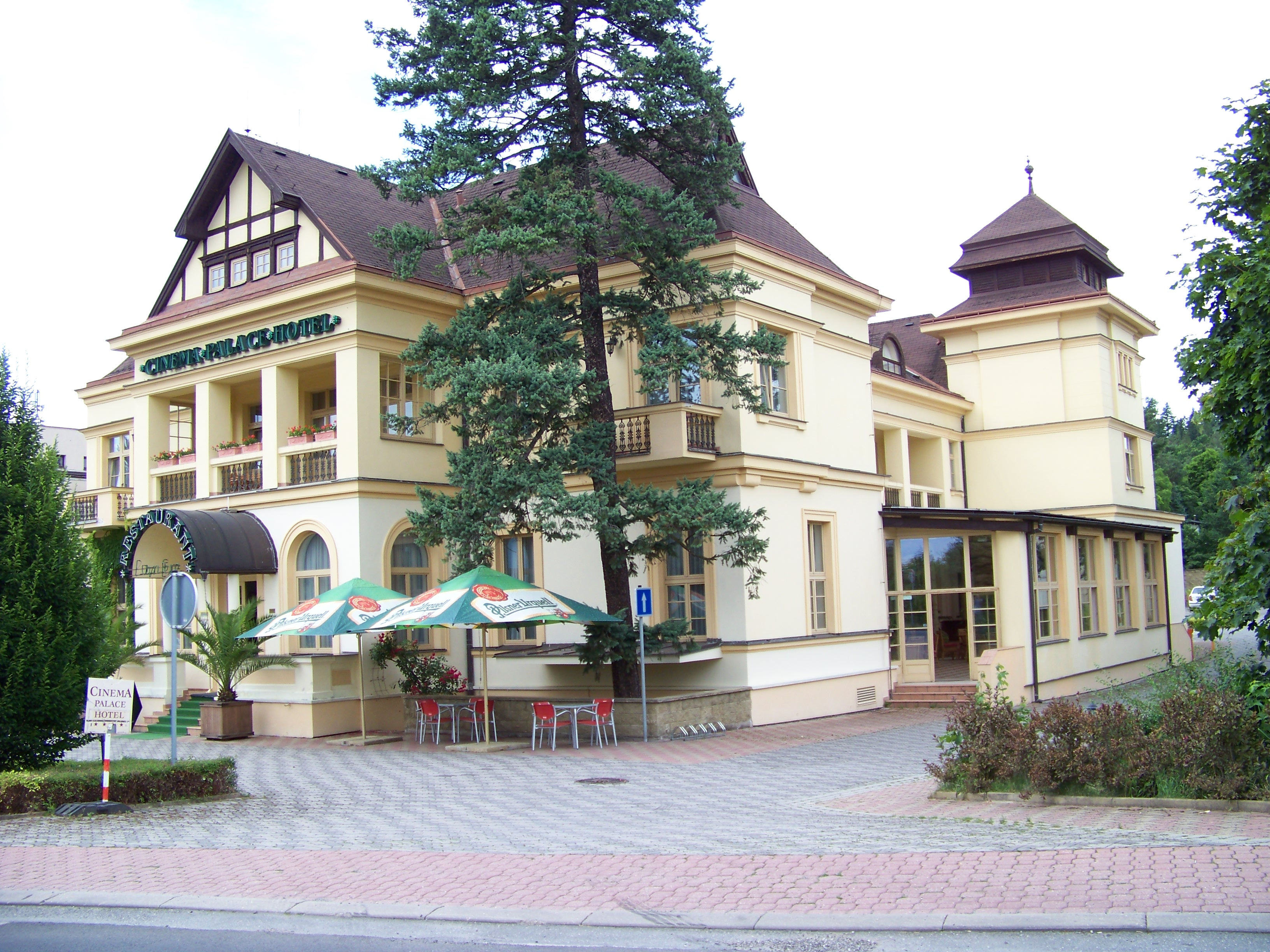 Jíloviště, Prague-West District, Central Bohemian Region, the Czech Republic. Cinema Palace Hotel. - Google Maps - Google Earth